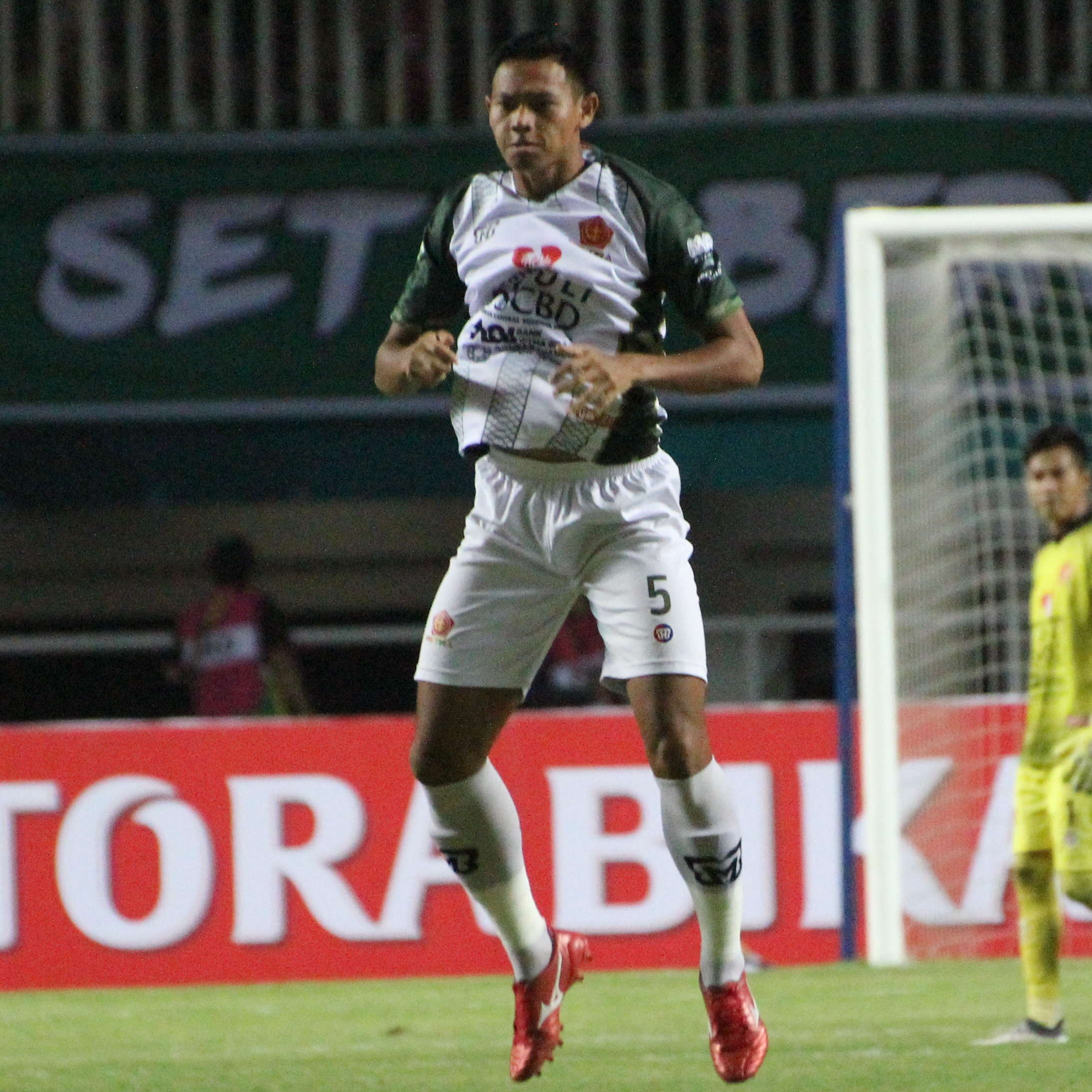 PS Tira player, Andy Setyo